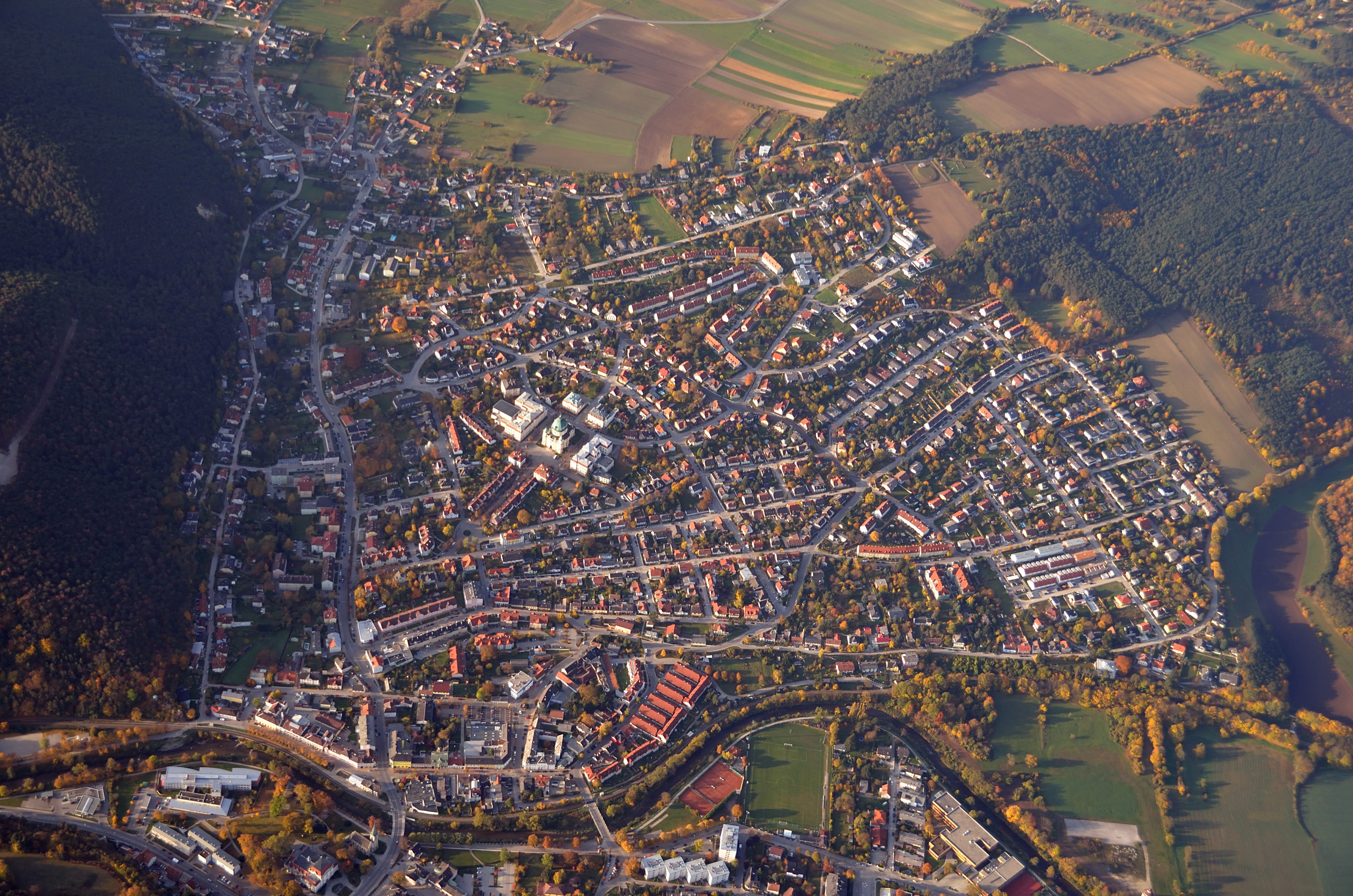 Berndorf, Lower Austria, from hot air balloon.